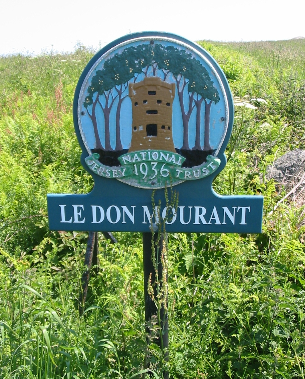 Sights of the Northern Parishes of Jersey Nrf: Eune touônnée au mais d'Mai siez les Nordgiens en Jèrri